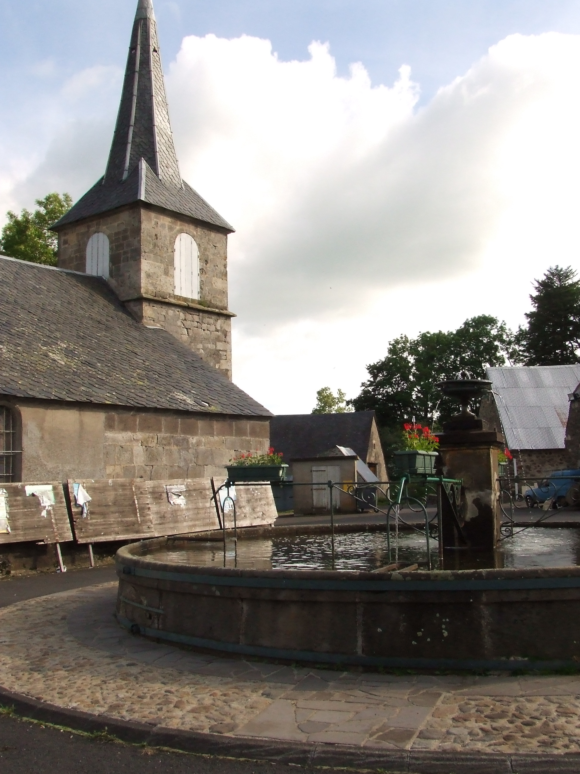 foutain and church of La Godivelle, in Puy-de-Dôme, France.